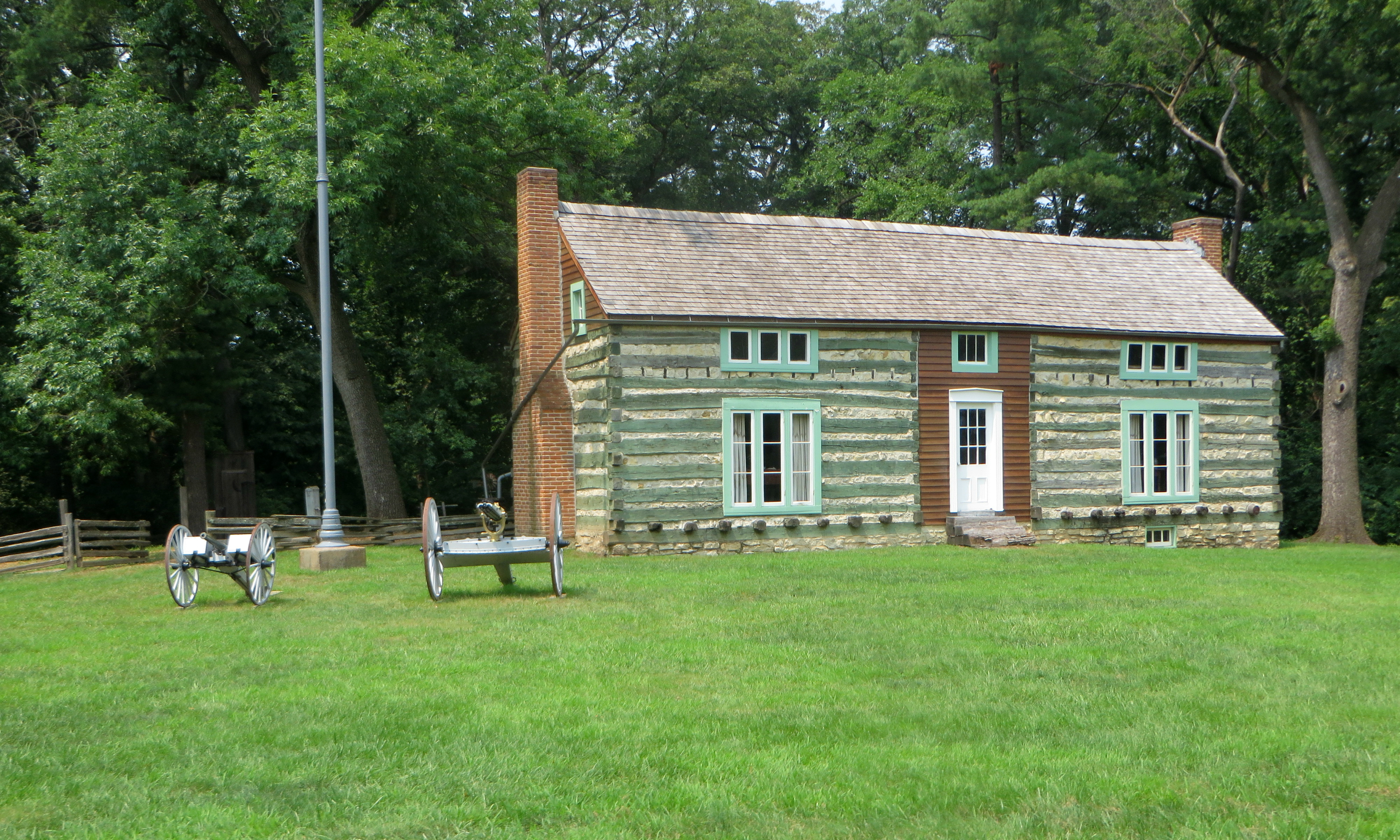 Moved to Grant's Farm by the Busch family.